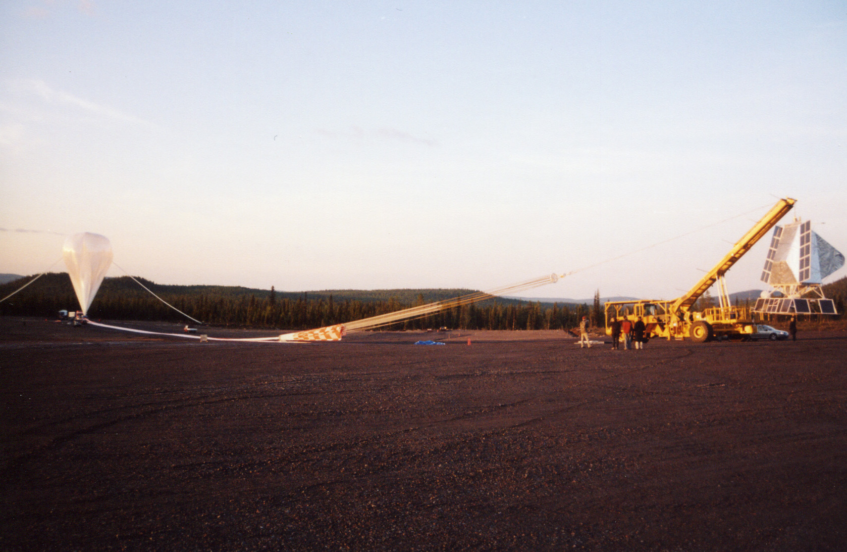 BLAST (the Balloon-borne Large Aperture Sub-millimetre Telescope) on the 'flightline' at Esrange. This photo was taken within one hour of the 1:10 UTC June 12 2005 launch. BLAST is the large structure at the far right (covered mostly by aluminized mylar and solar arrays) hanging from the launch vehicle (yellow). Several grad students are standing in front of the launch vehicle for scale. BLAST is attached to both the launch vehicle and the flight train at the top. The flight train (cables that BLAST suspends from during flight) is draped over the top of the launch vehicle where it attaches to the parachute (orange/white) which is in turn attached to the balloon (white). The balloon is stretched along the ground until it gets to the 'spool truck', above which it is filled with helium, which is ongoing (through the two white tubes extending from near the top of the balloon to the ground) at the time the photo was taken. The balloon is only partially inflated before launch. As the balloon ascends and the atmospheric pressure decreases, the helium in the balloon will expand and eventually fill the balloon fully, at which point the balloon will stop rising, a point referred to as 'float,' at 35 - 40 km altitude. At launch time, the spool truck will release the balloon, which will rise up over the launch vehicle. When the balloon is directly overhead the launch vehicle, the launch vehicle will release BLAST, allowing ascent. Because of variations in wind and other conditions, the launch vehicle often needs to maneuver quickly during launch to safely release the payload.